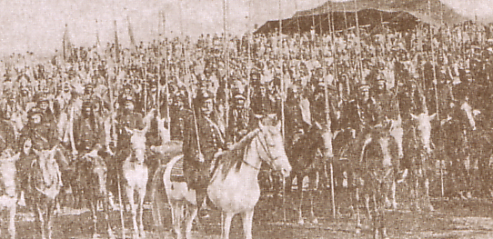 Supression battalion consisted of Kurdish traitors